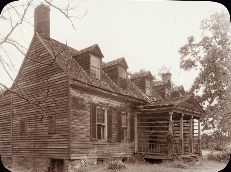 Title [Kittiewan, Weyanoke vicinity, Charles City County, Virginia. Entrance façade] Contributor Names Johnston, Frances Benjamin, 1864-1952, photographer Created / Published [between ca. 1930 and 1939] Subject Headings - Houses--Virginia--Charles City County--1930-1940 - Porches--Virginia--Charles City County--1930-1940 - Dormers--Virginia--Charles City County--1930-1940 - Wooden buildings--Virginia--Charles City County--1930-1940 Format Headings Lantern slides--1930-1940. Notes - On slide (handwritten): "Kittewan [sic], Charles City." - Slide for lecturing on "Tales Old Houses Tell." - Title and date based on same image in the Carnegie Survey of the Architecture of the South, LC-J7-VA-1524-A, with additional information from Sam Watters, 2011. - Forms part of: Garden and historic house lecture series in the Frances Benjamin Johnston Collection (Library of Congress). - Formerly in Box 29. Medium 1 photograph : glass lantern slide, sepia-toned ; 3.25 x 4 in. Call Number/Physical Location LC-J717-X106- 34 [P&P] Repository Library of Congress Prints and Photographs Division Washington, D.C. 20540 USA Digital Id ppmsca 16604 //hdl.loc.gov/loc.pnp/ppmsca.16604 Library of Congress Control Number 2008675904 Reproduction Number LC-DIG-ppmsca-16604 (digital file from original item) Rights Advisory No known restrictions on publication. Online Format image Description 1 photograph : glass lantern slide, sepia-toned ; 3.25 x 4 in. LCCN Permalink